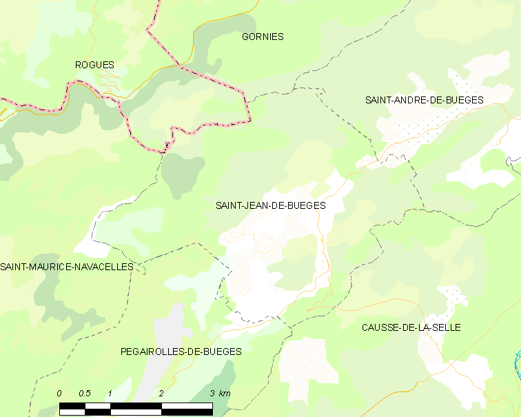 Map commune FR insee code 34264.png - Saint-Jean-de-Buèges